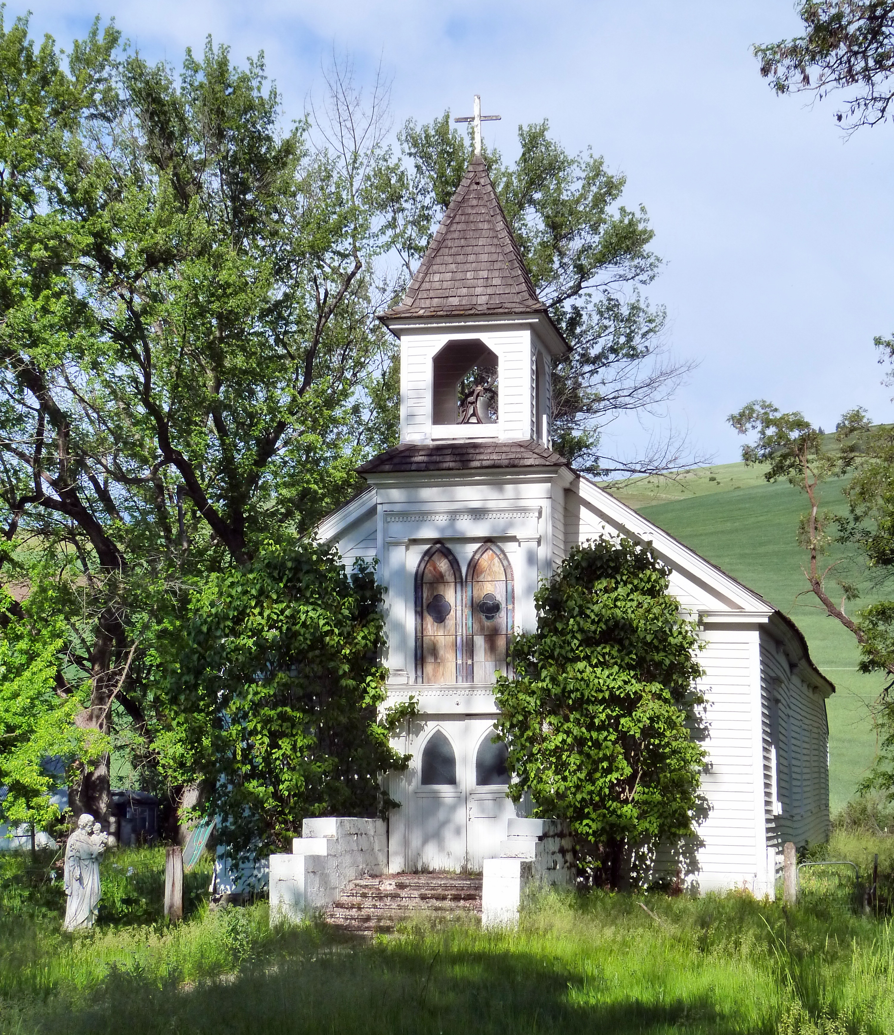 The historic St. Joseph's Mission (built 1874) near Culdesac, Idaho, United States, is listed on the US National Register of Historic Places, and is a site associated with the Nez Perce National Historical Park.